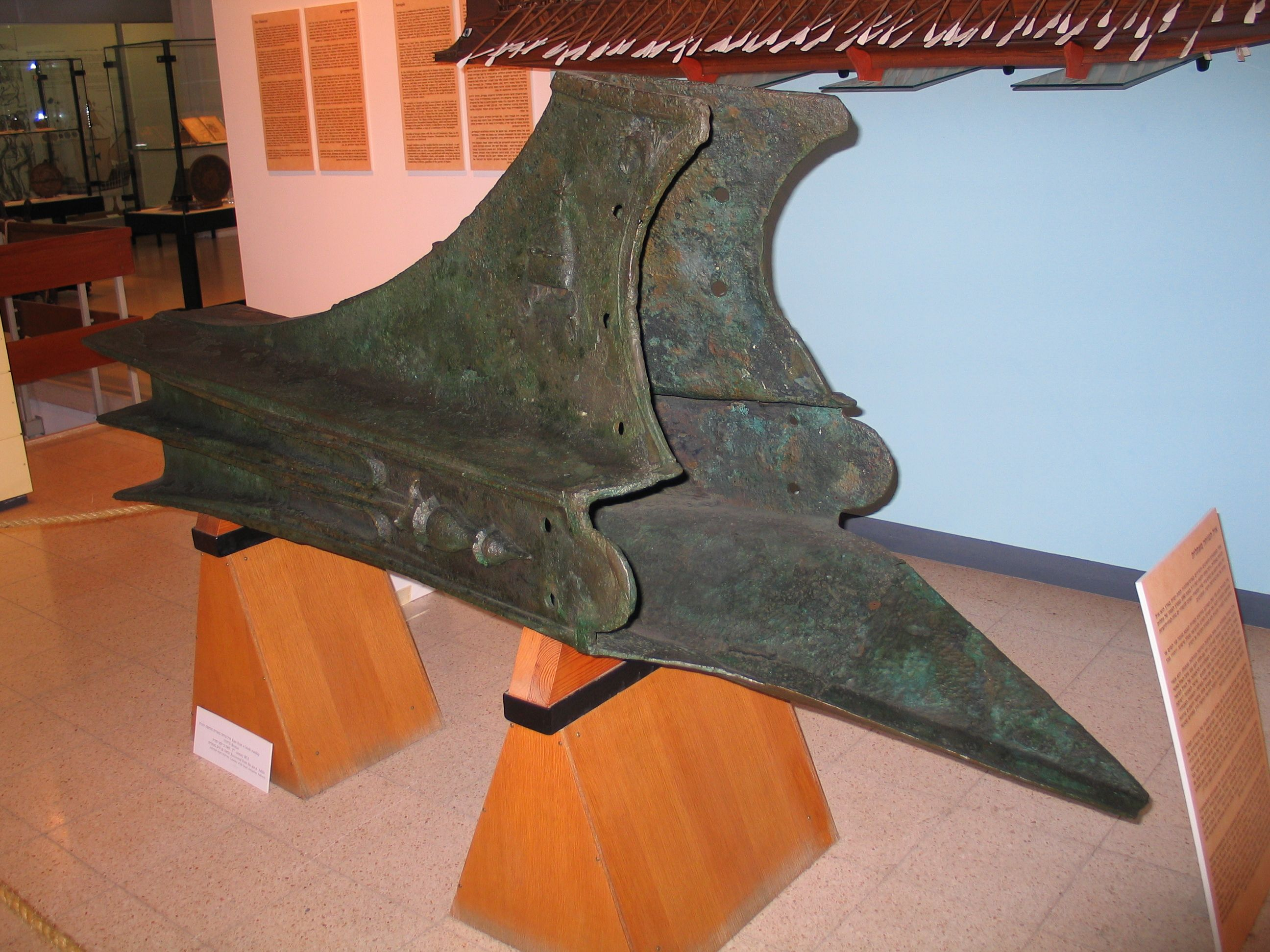 Israeli National Maritime Museum, Haifa. A bronze ram from a 2nd century BC Greek warship. Recovered from the sea near Atlit.